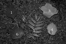 Explanations for the picture Høstfarver.jpg